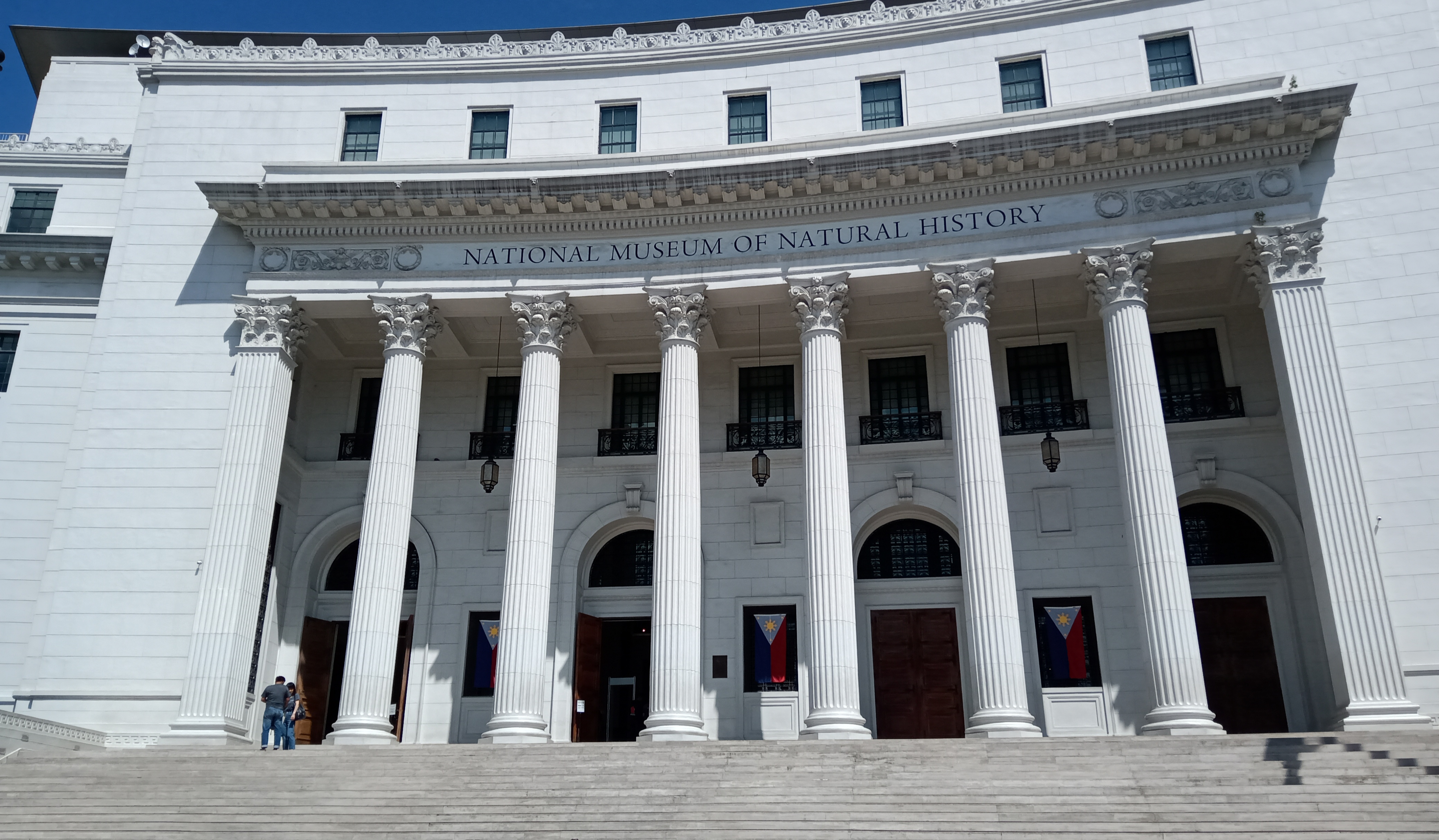 National Museum of Natural History (Manila) Image taken on June 6, 2019